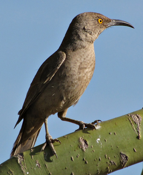 A Curve-billed Thrasher in Tucson, Arizona, USA.